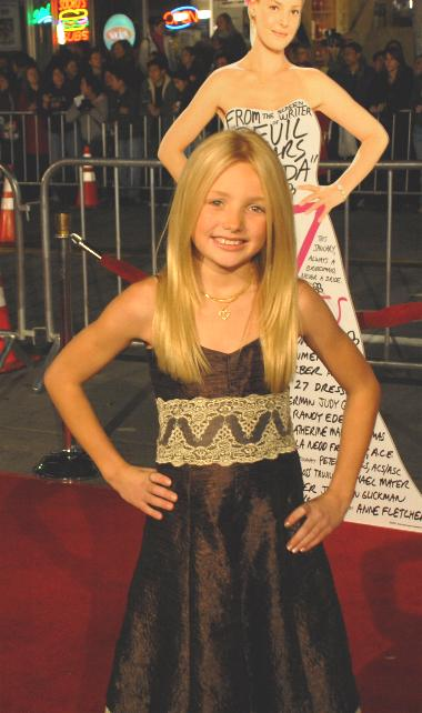 January 7, 2008 - 27 Dresses Premiere in Westwood